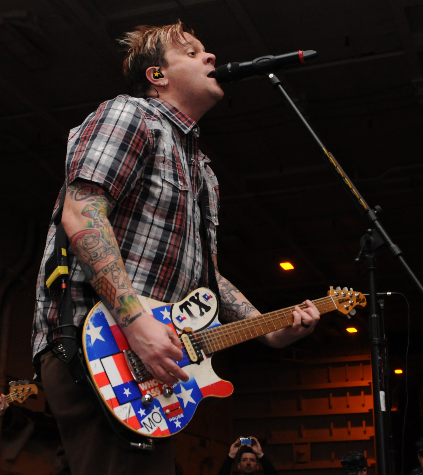 Jaret Reddick, lead vocalist and rhythm guitarist for the Grammy Award-nominated punk rock band Bowling for Soup, performs for Sailors in the hangar bay of the Nimitz-class aircraft carrier USS Abraham Lincoln (CVN 72). The band toured the ship, met with Sailors and performed for the crew as part of a tour sponsored by Navy Entertainment. Abraham Lincoln is deployed to the U.S. 5th Fleet area of responsibility conducting maritime security operations, theater security cooperation efforts and support missions as part of Operation Enduring Freedom.